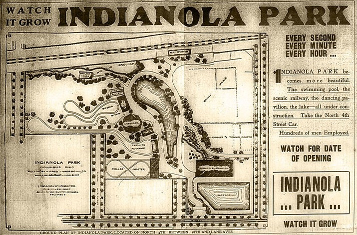 Ad from Ohio State Journal, April 14, 1905